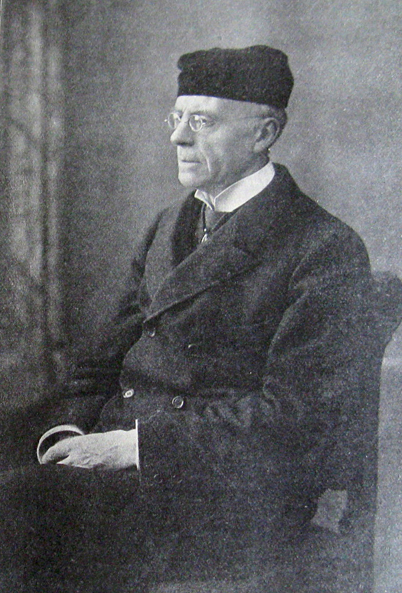 The Norwegian author Jonas Lie